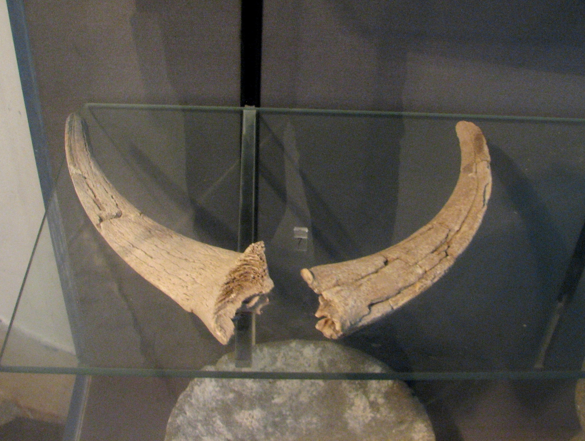 Atlit Yam is an ancient submerged Neolithic village off the coast of Atlit, Israel. The site is dated to the final Pre-Pottery Neolithic B site of Atlit Yam dates between 6900 and 6300 BC. Moshe Stekelis Museum of Prehistory exhibition in Haifa Israel The exhibition is based on the excavations and researches of the Haifa University and Antiquities Authority. Photography by Yosef Galili, Ehud Galili, Itamar Greenberg